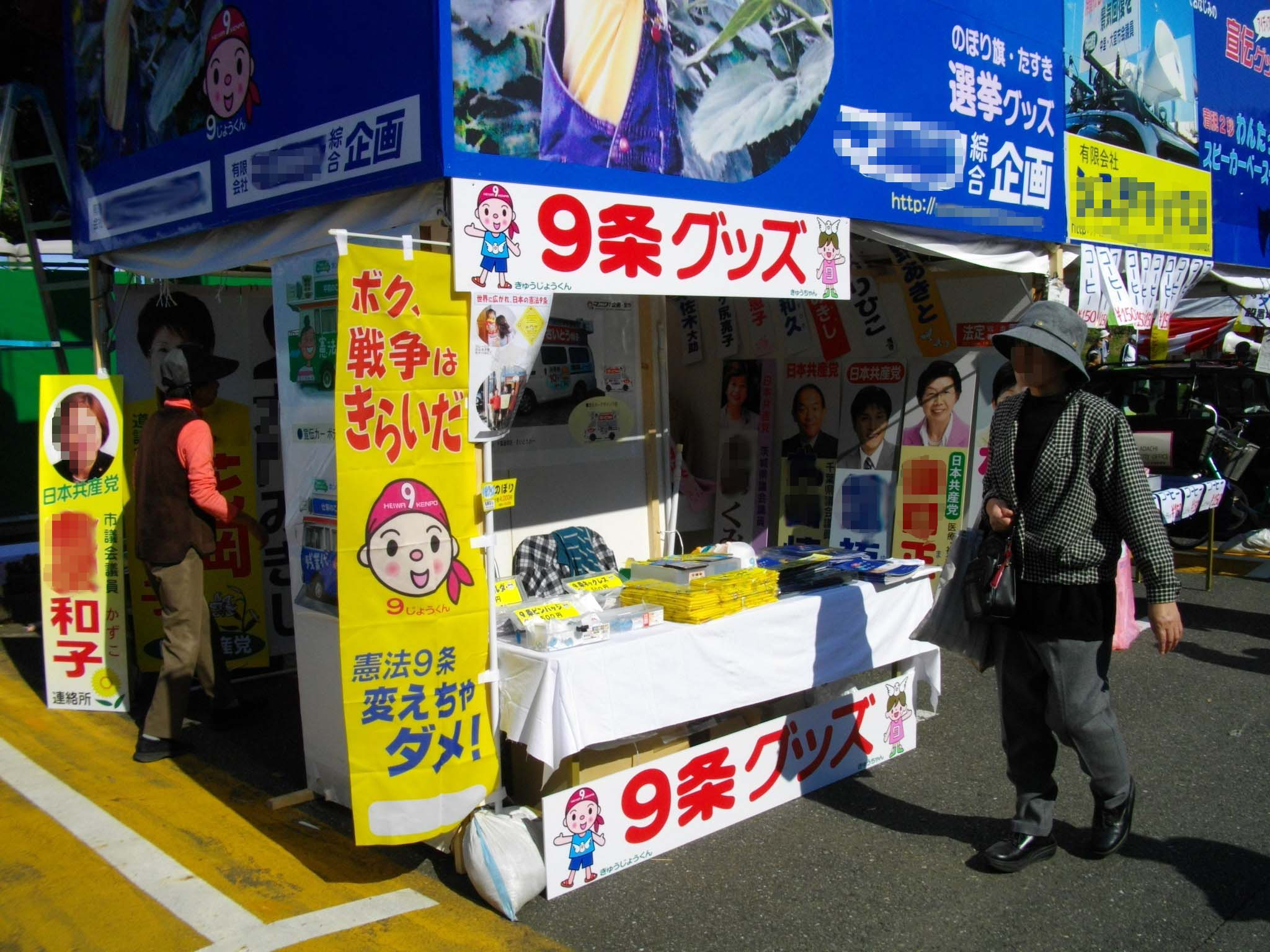 Akahata Matsuri(Article 9 goods stall)